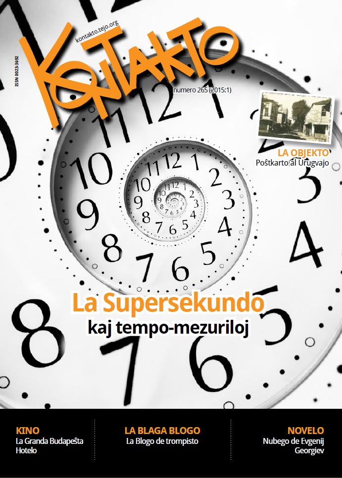 Cover of the 265th issue (2015:1) of the magazine “Kontakto”, main publication of the World Esperanto Youth Organization